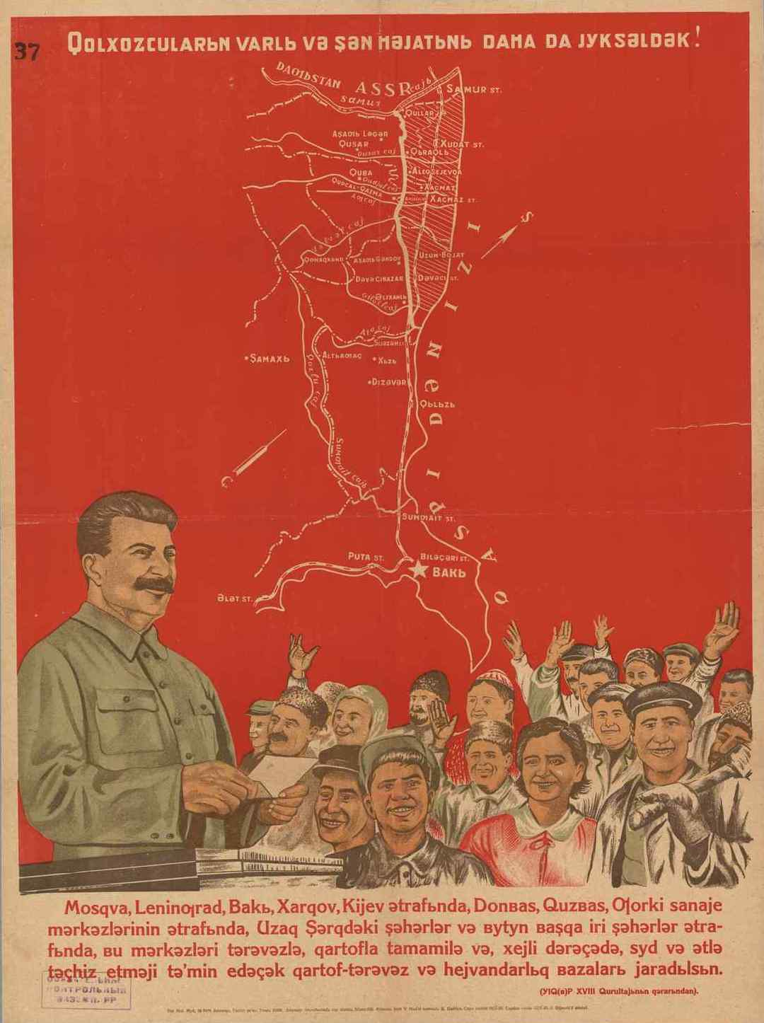 Poster of Azerbaijan 1939. Railways